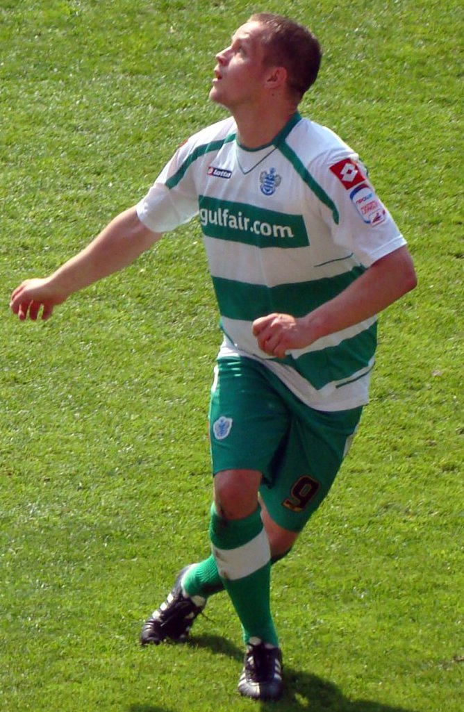 Heiðar Helguson, cropped from 23/04/11 Cardiff V QPR, Championship, Cardiff City Stadium, Cardiff, Wales